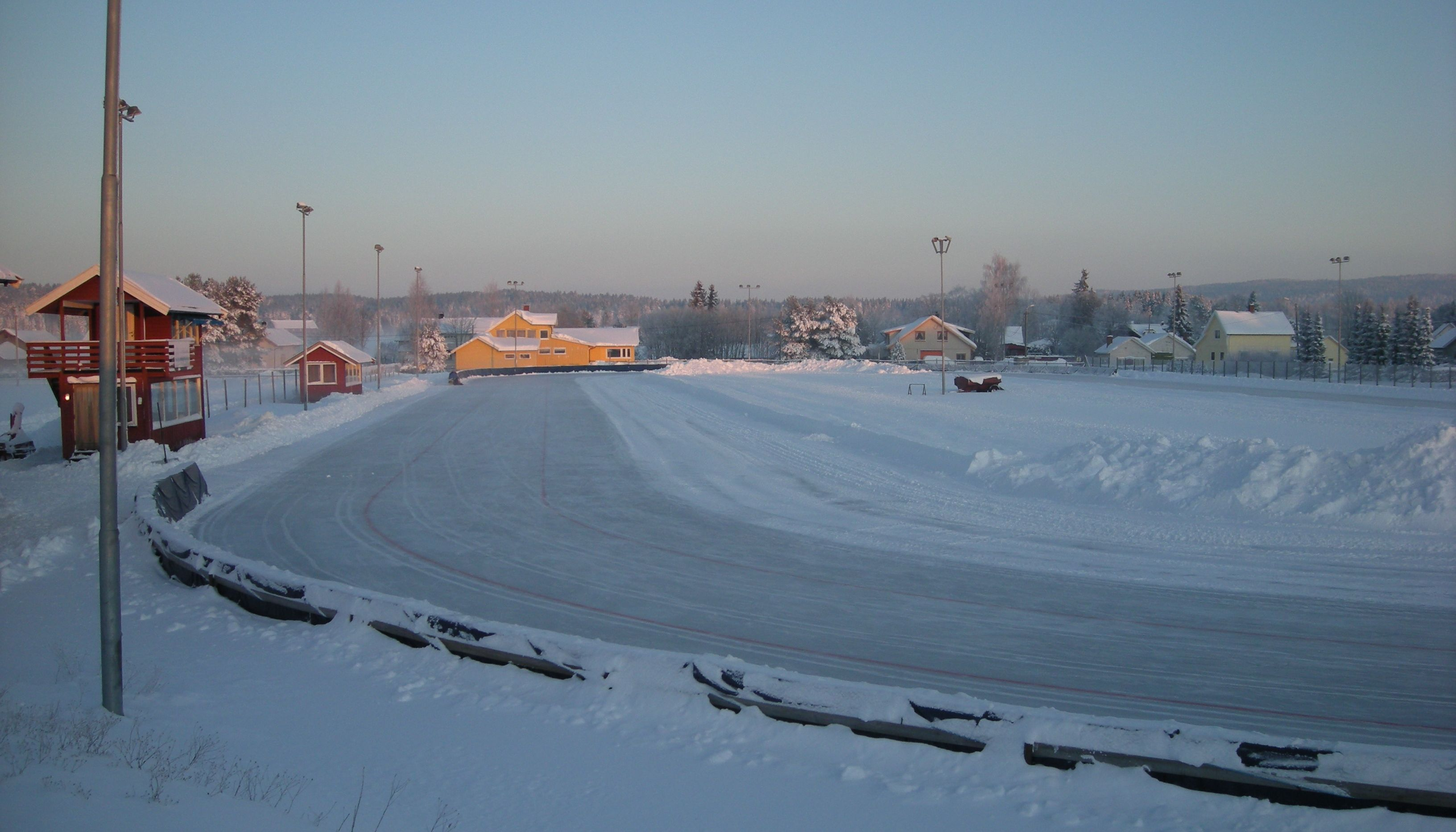 Båstad kunstis - speedskating track in Trøgstad, Norway